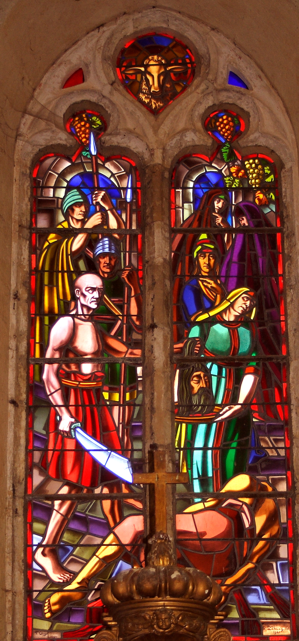 Stained-Glass window of the Goudou (Lot) church high altar : beheading,decapitation of Saint John the Baptist by Georges Emile Lebacq.